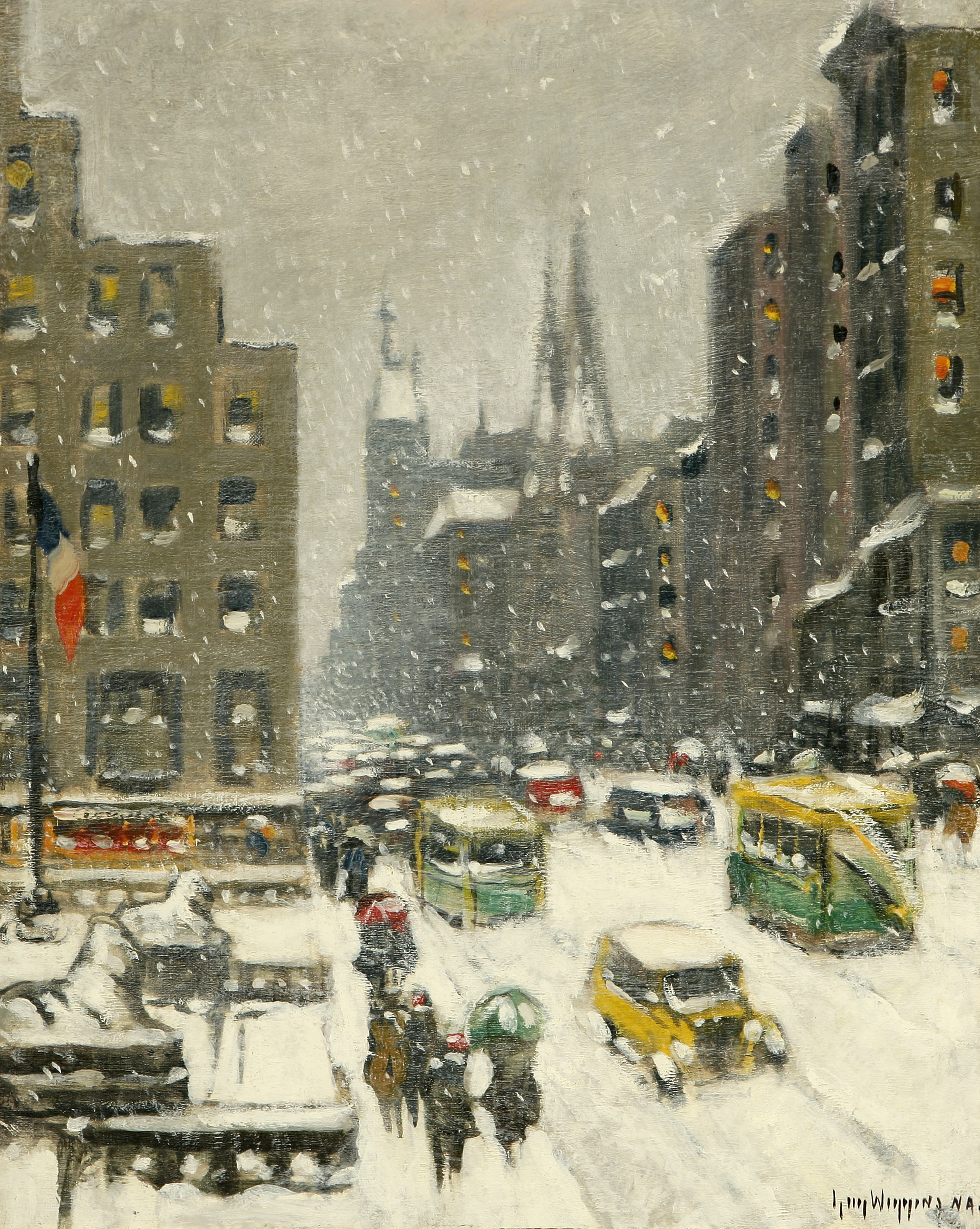 Guy Wiggins-5th Avenue Storm, oil on canvas painting. Offered by John Moran Auctioneers on February 17th, 2009